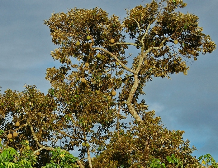 Durian (Durio zibethinus) fruiting tree. Saninten, Banten, West Java, Indonesia.